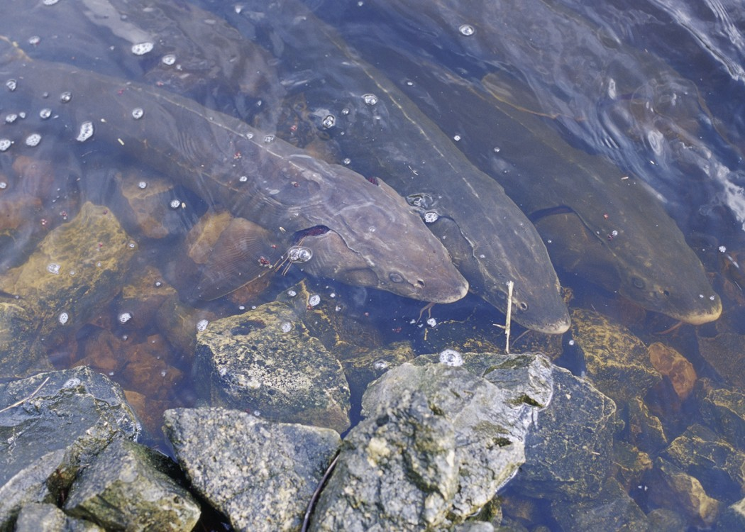 Lake Sturgeon (Acipenser fulvescens)